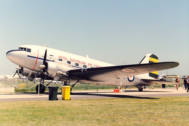 Douglas C-47 A65-95 of the Royal Australian Air Force's Aircraft Research and Development Unit on display at the inaugural Avalon airshow in Victoria, 22 October 1992.